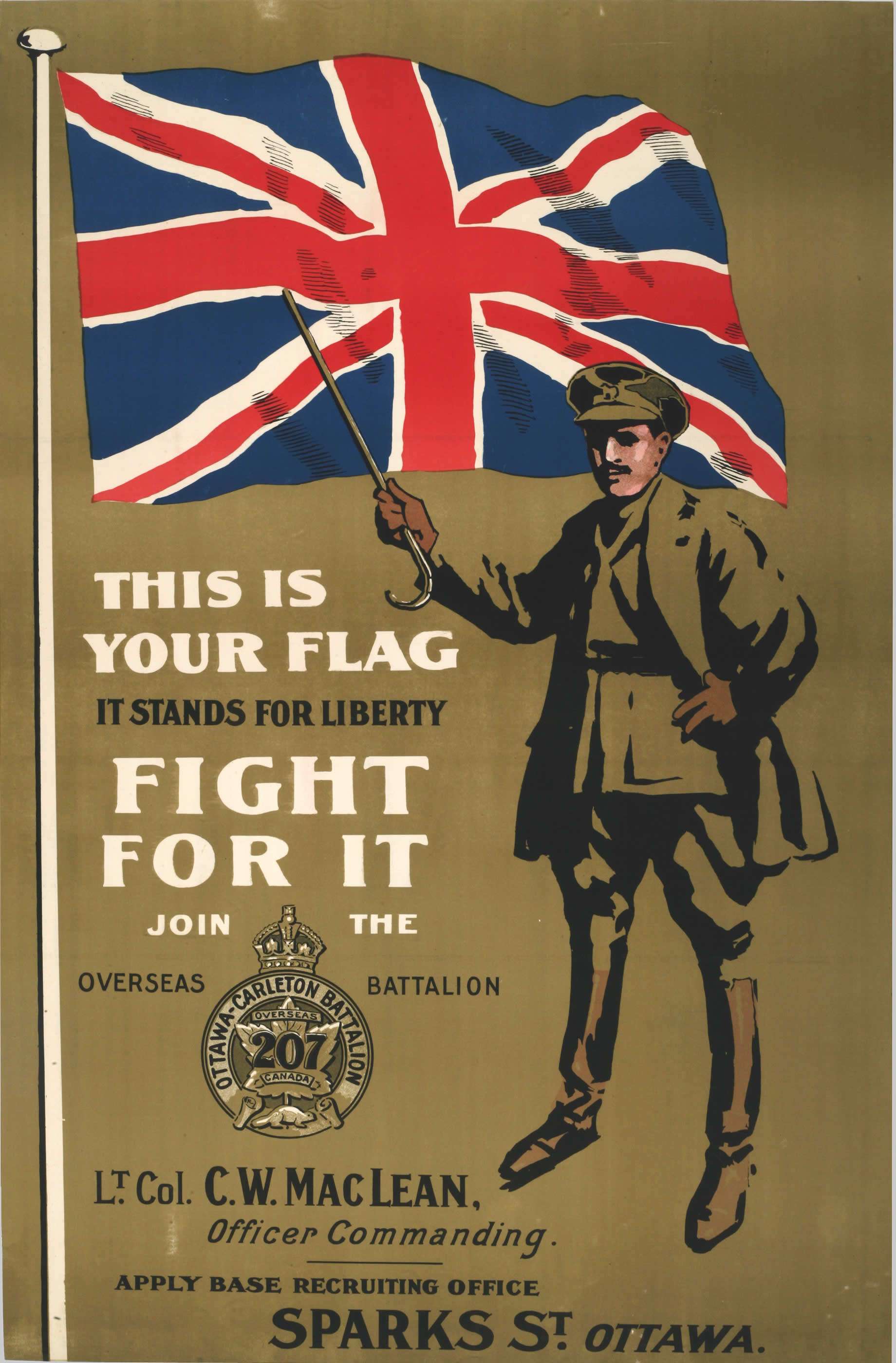 This is a recruitment poster for the 207th Battalion of Ottawa-Carleton, the recruiting office for which was in downtown Ottawa. The unit went overseas in 1917, but was later broken up and its soldiers sent to reinforce other front-line infantry battalions, including the 2nd, 21st, and 38th Battalions, and the Princess Patricia's Canadian Light Infantry.